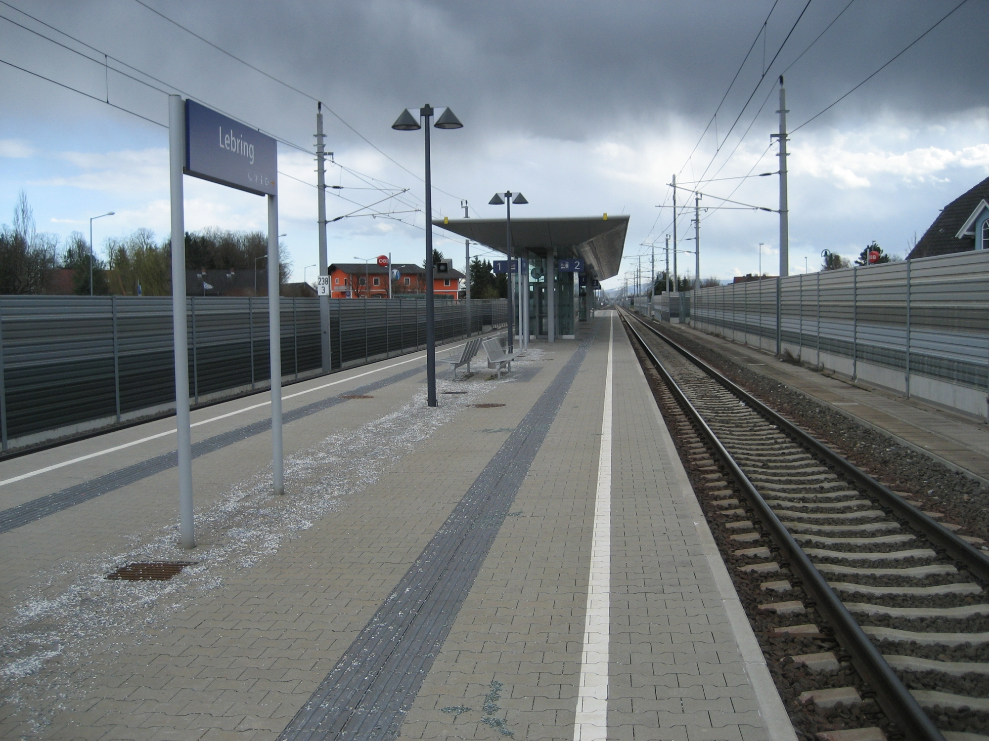 Lebring train station in Styria